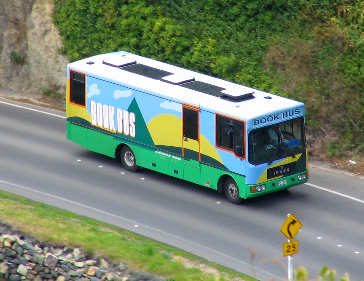 A book bus of the Dunedin Public Libraries, on Portobello Road, Dunedin, New Zealand. While titled bus, it is actually a 1991 Isuzu FSR500 truck.